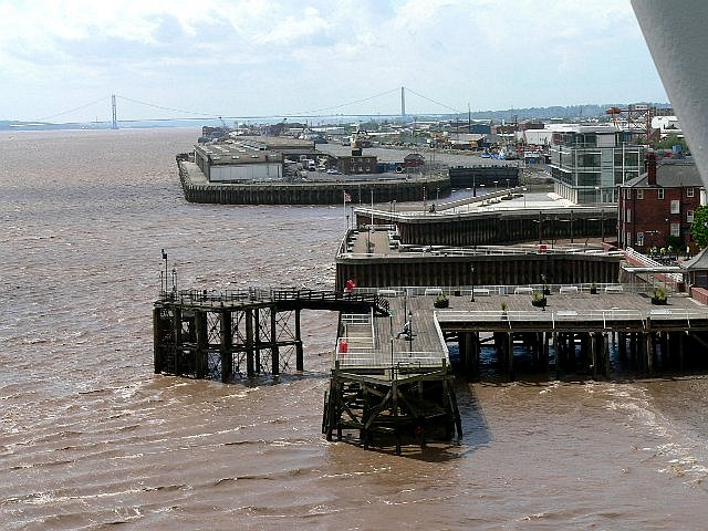 Victoria Pier and Riverside Quay, Hull, East Riding of Yorkshire, England.The photograph was taken from the viewing platform of "The Deep", claimed to be the world's first "Submarium". The Humber Bridge is in the background.